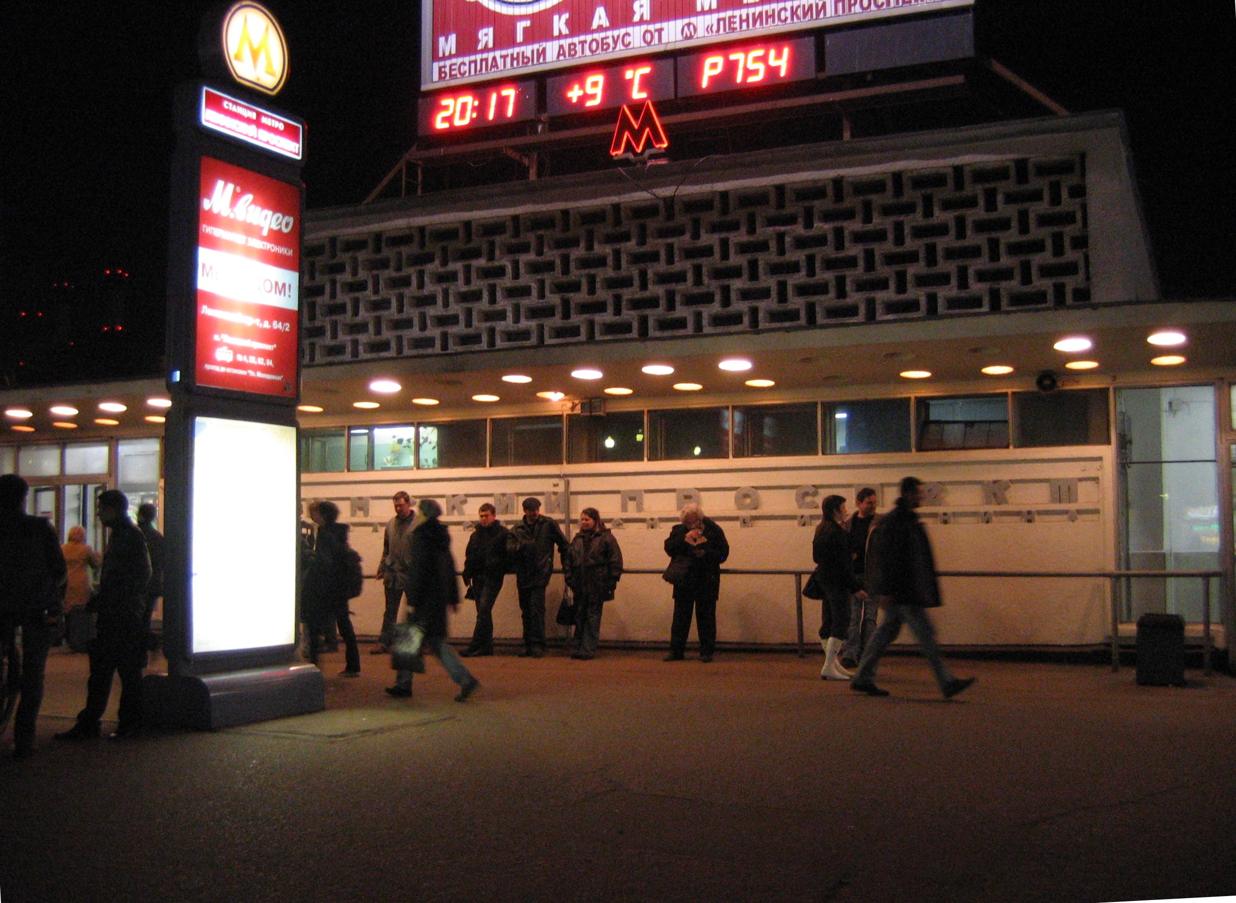 Vestibule of Leninsky prospekt subway station, Moscow, Russia